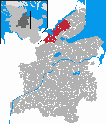 This map shows the area of the Amt (county) Schlei in the Kreis (district) Rendsburg-Eckernförde, Schleswig-Holstein, Germany.